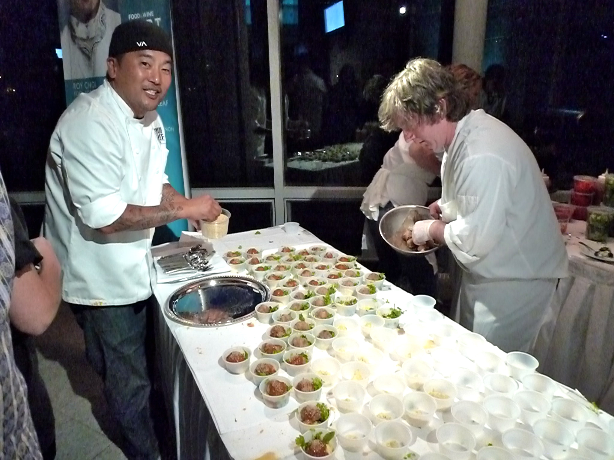 Roy Choi from Koji BBQ at Aspen Food & Wine Fest 2010